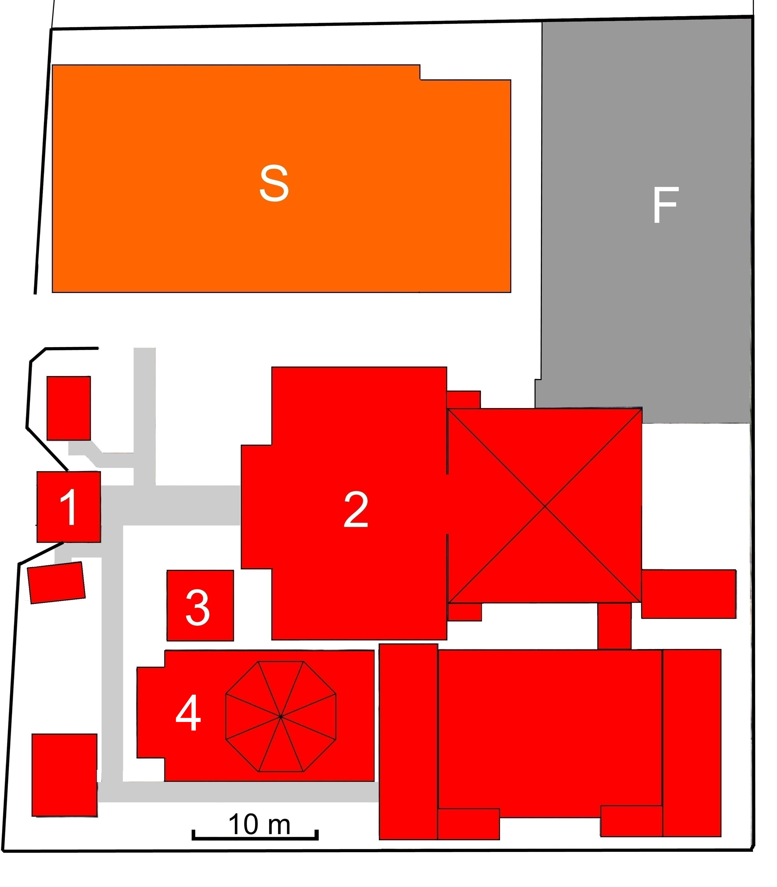 Layout of Kakuman-ji temple at Osaka, Japan